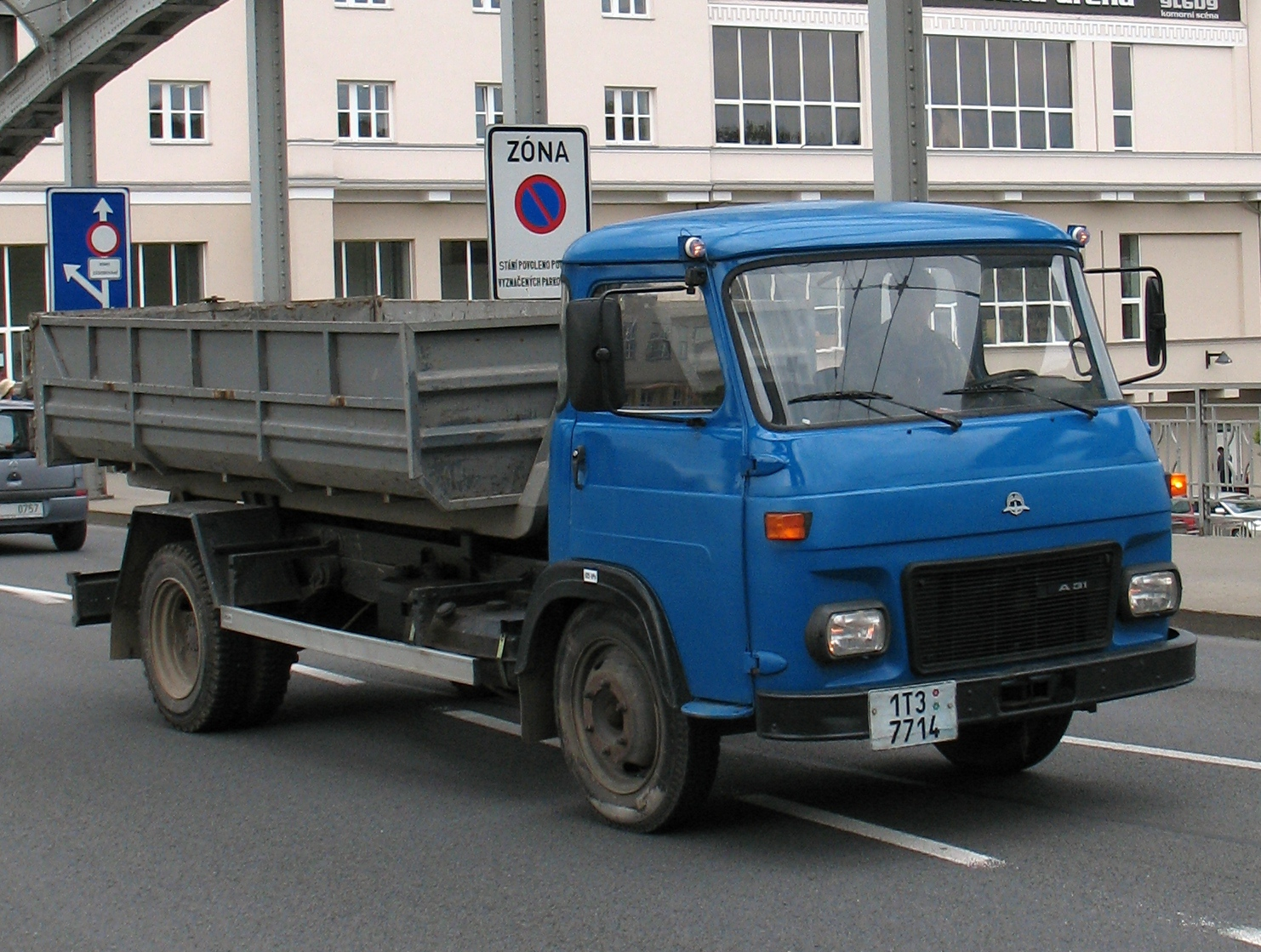 An Avia truck (actually a Renault built in Czechoslovakia) crosses the iron bridge at Ostrava. 3.9.2007. Canon Powershot A630